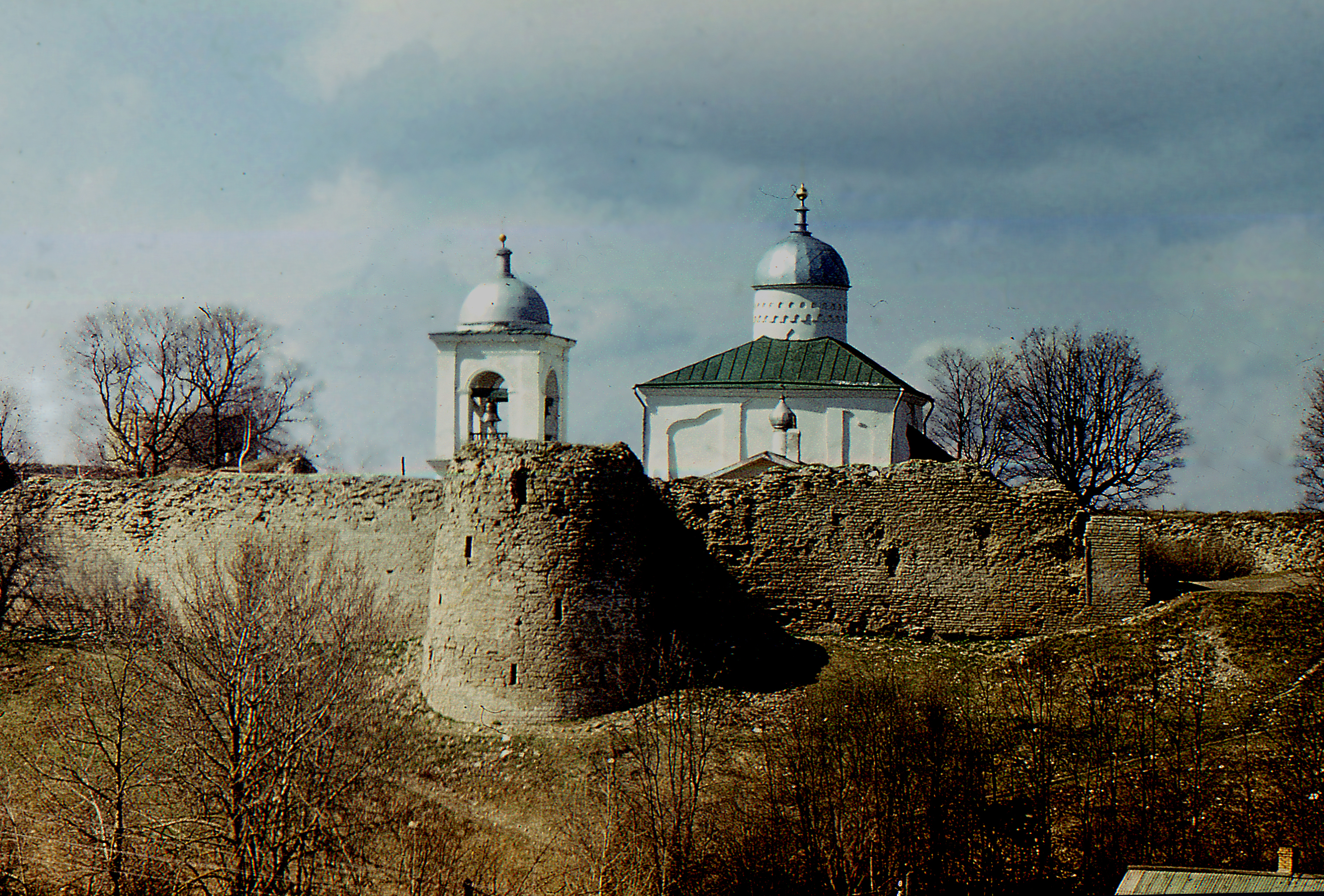 Izborsk.Church.Fortress.